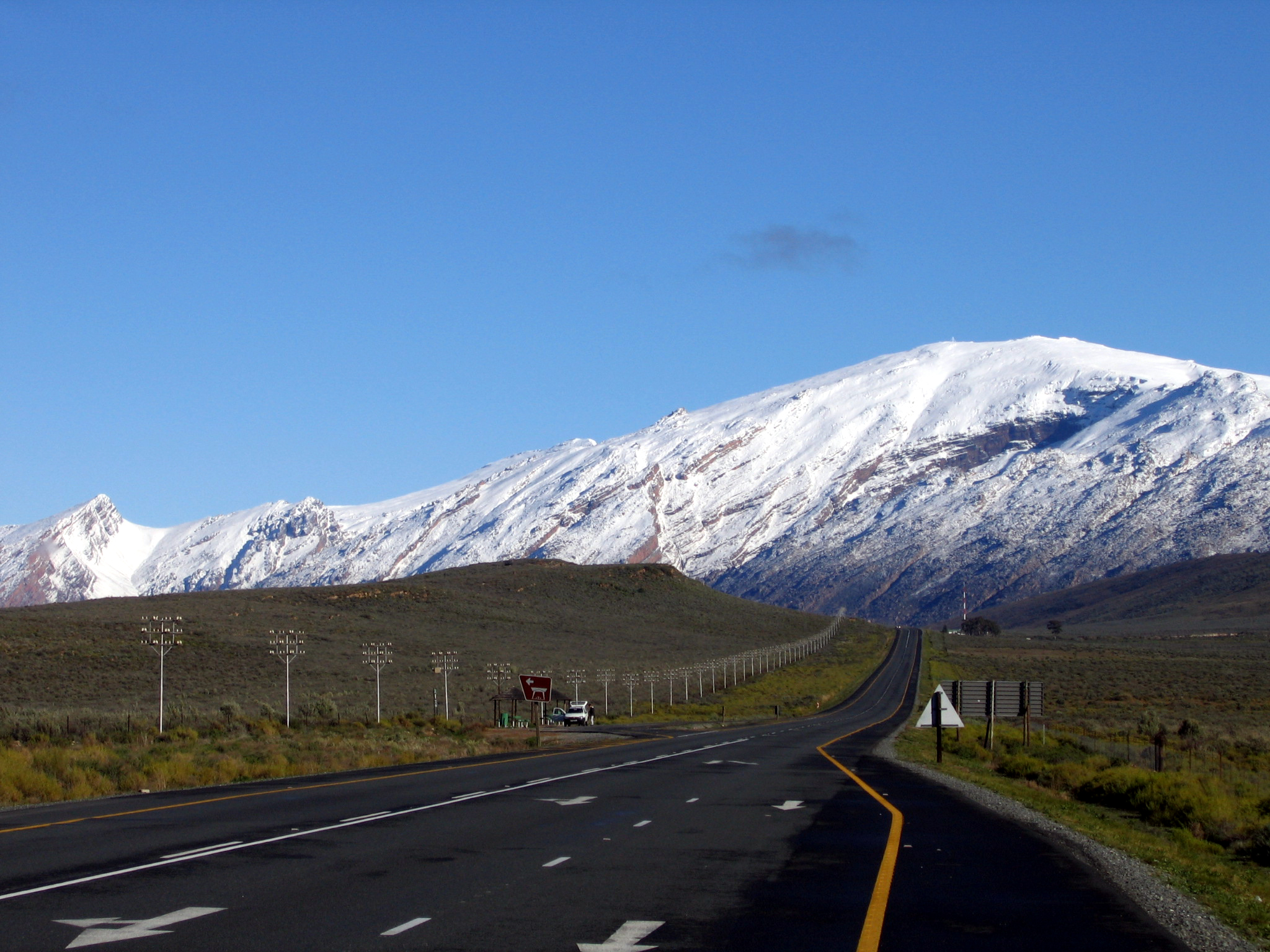 N1 between Touws River and De Doorns atop Hex River Pass